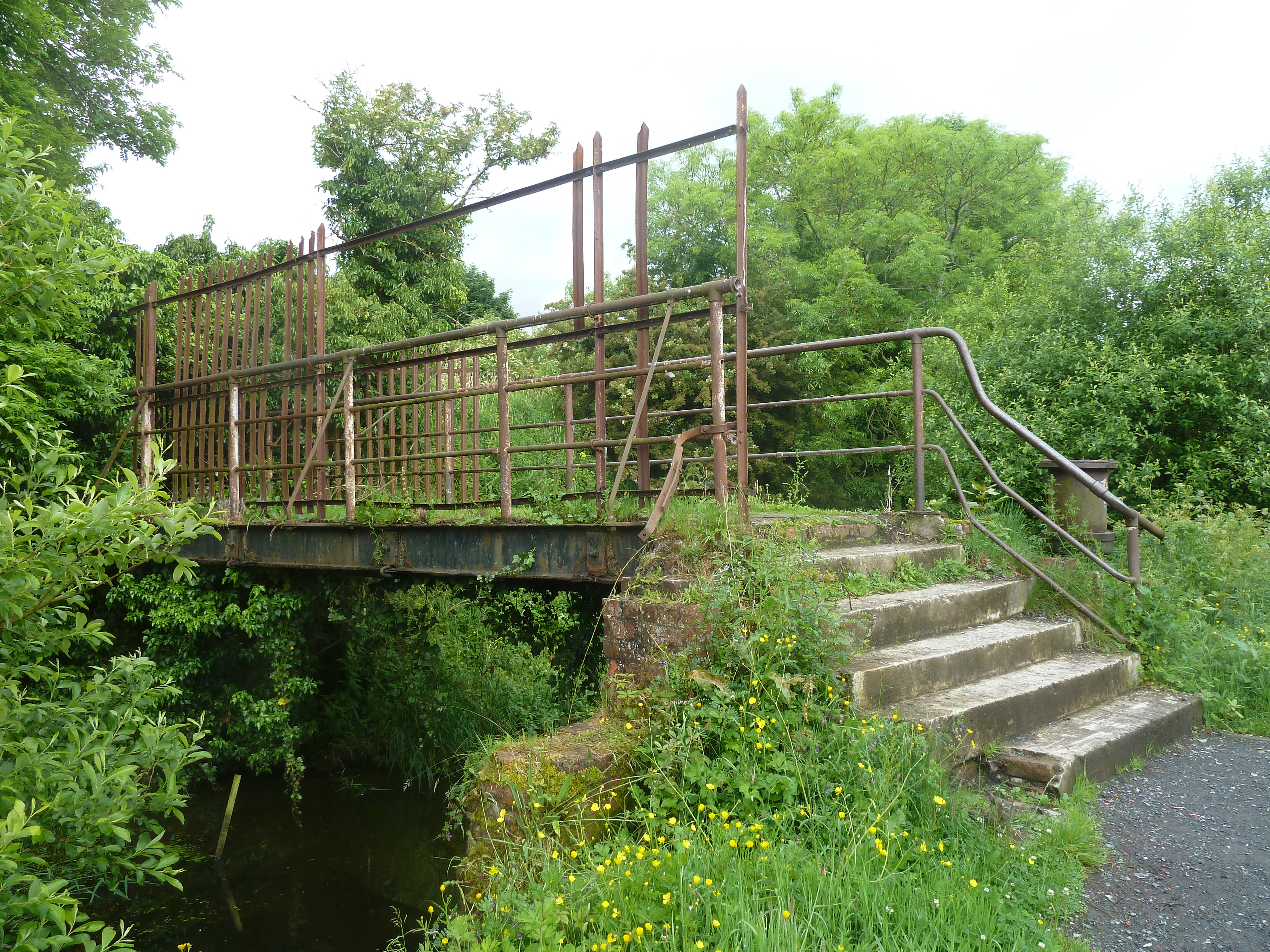 Hilden, Co. Antrim, Ireland May 2014